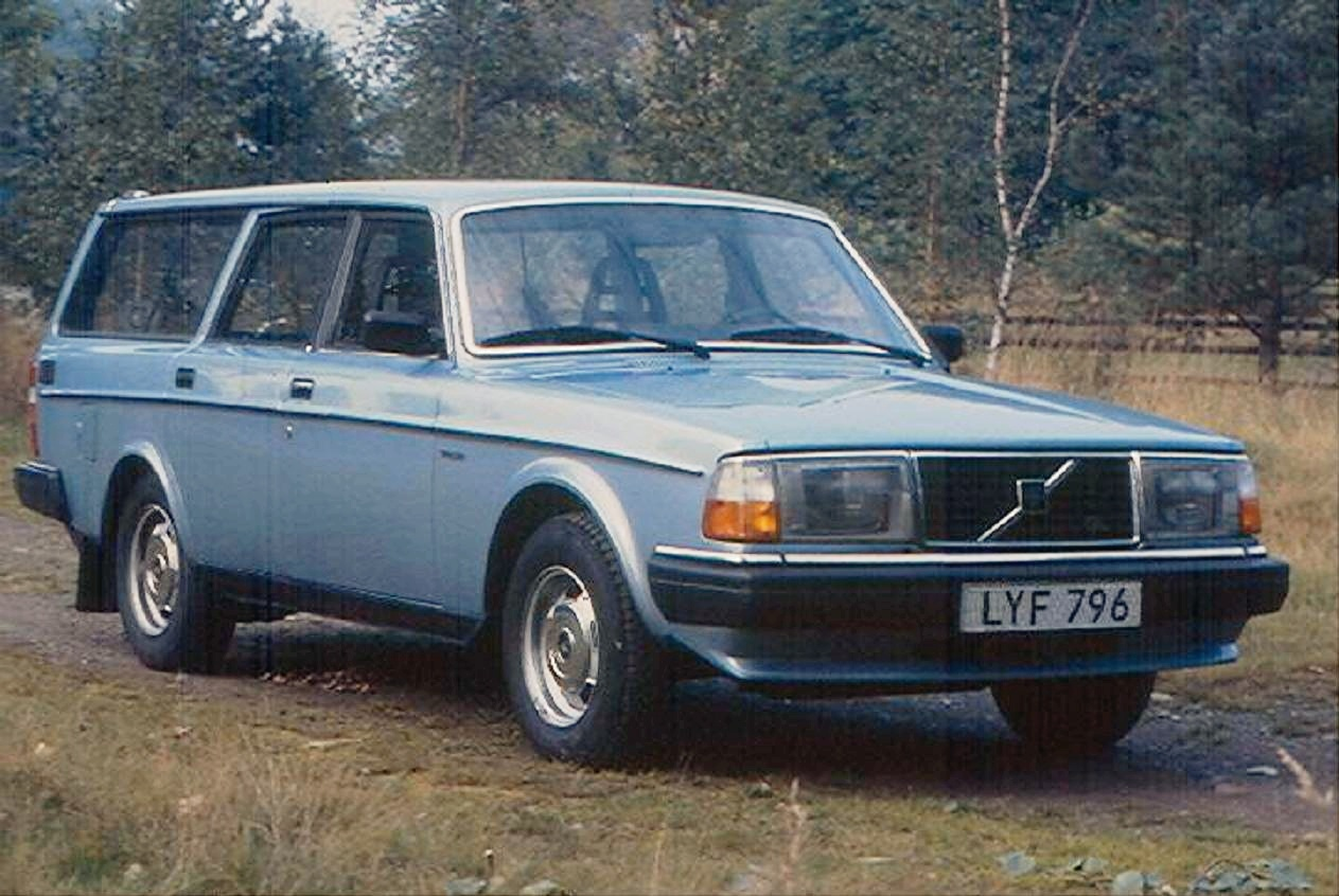 Volvo 245 MY 1981. German specification, retouched fictional swedish registration